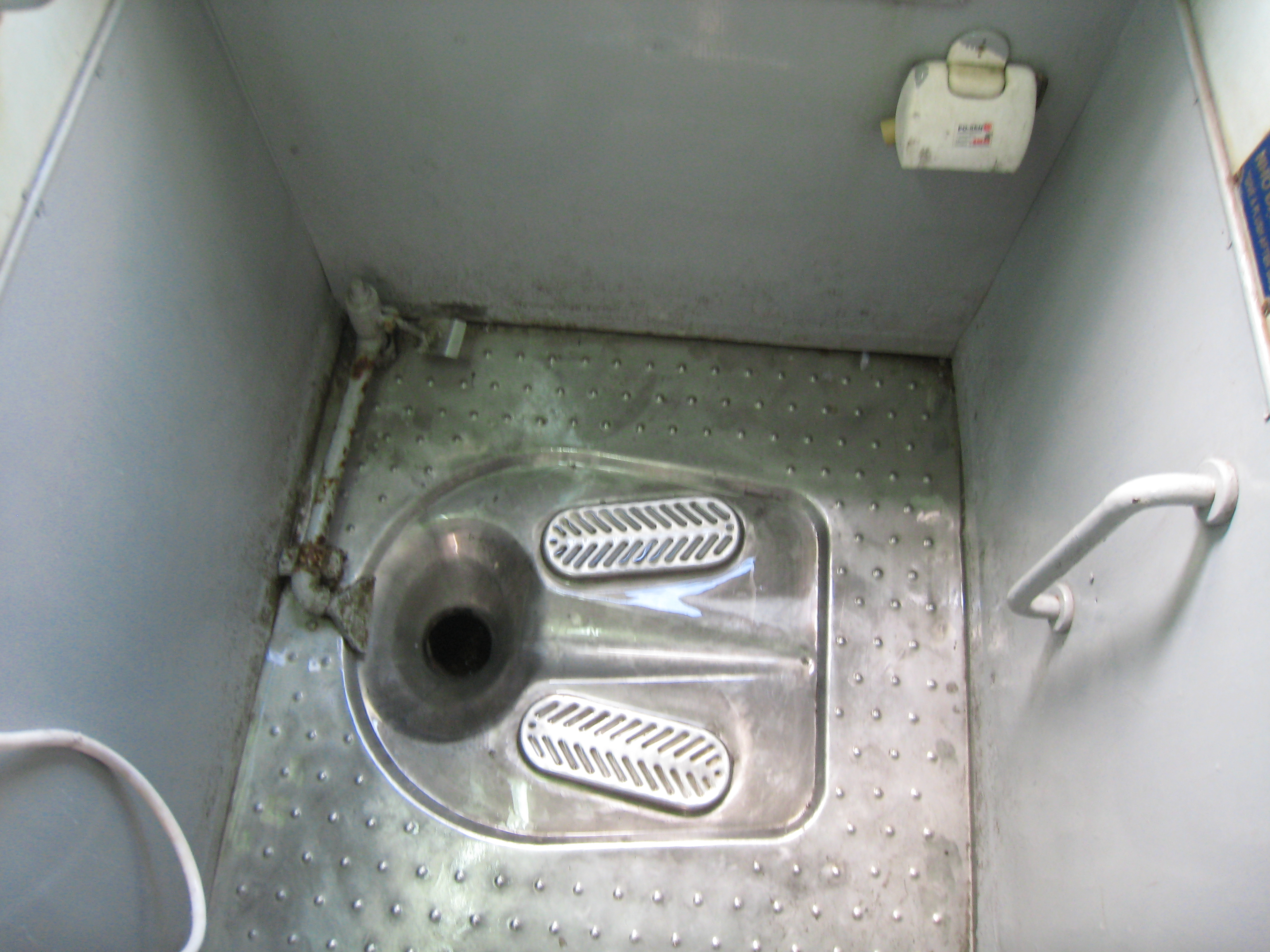 Squat toilet on the train with grab bar. White hose on bottom left is the vietnamese bidet.